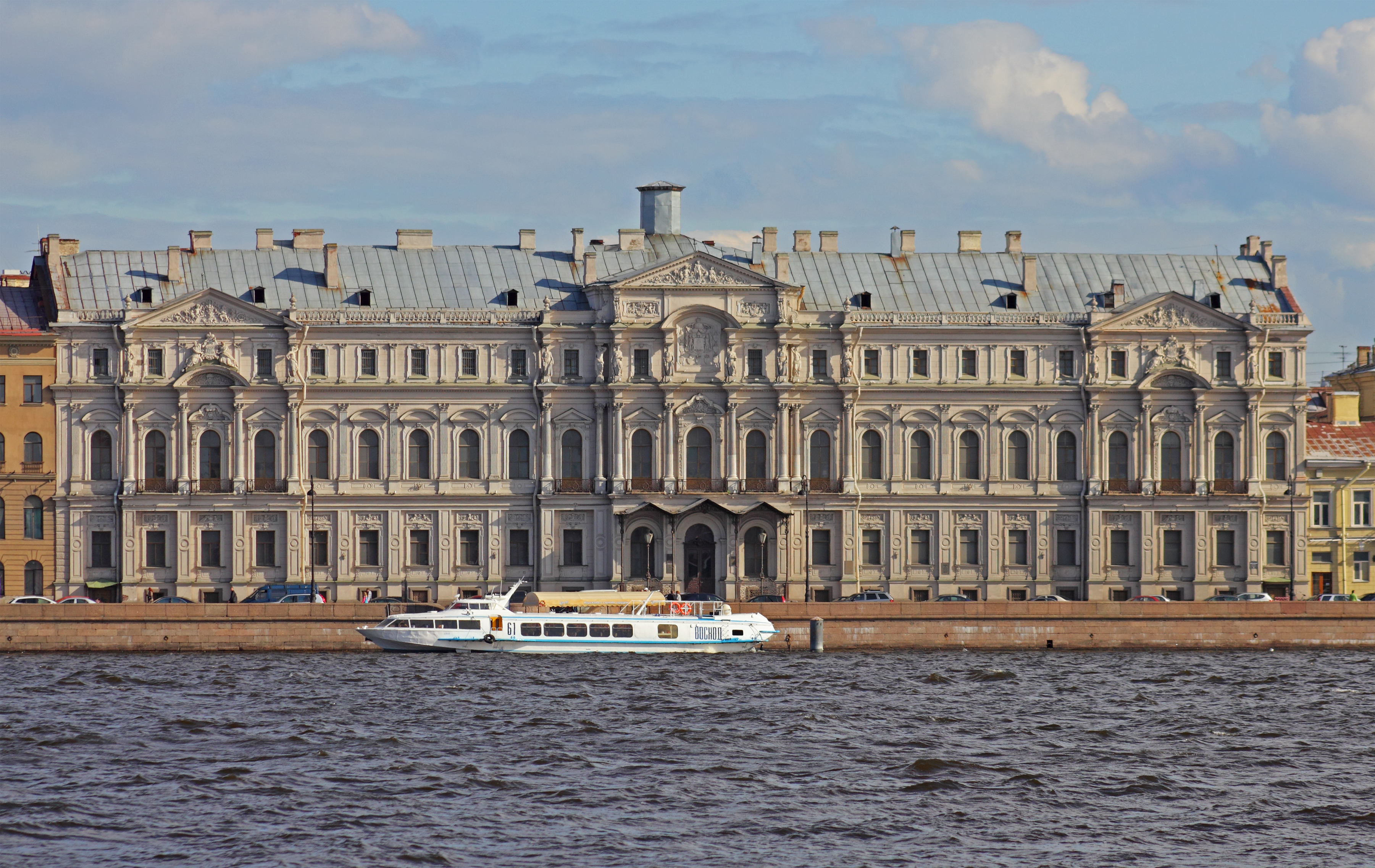 Saint Petersburg, Russia. Palace Embankment, house 18 (New Michael Palace).